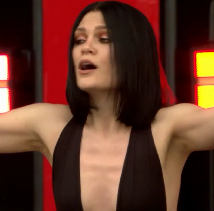 Jessie J at Isle of Wright Festival 2018